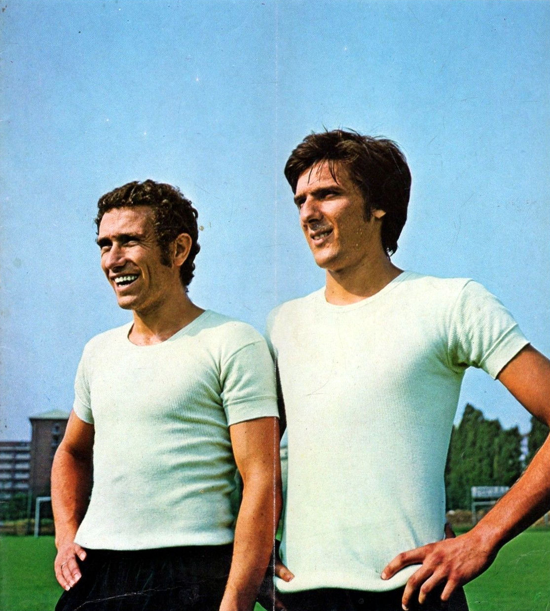 From left to right: the two Italian footballers and new arrivals of Juventus F.C. for the 1974–75 season, the winger Giuseppe “Oscar” Damiani and the sweeper Gaetano Scirea, in training at the “Combi” Ground of Turin (Italy) in the Summer of 1974.